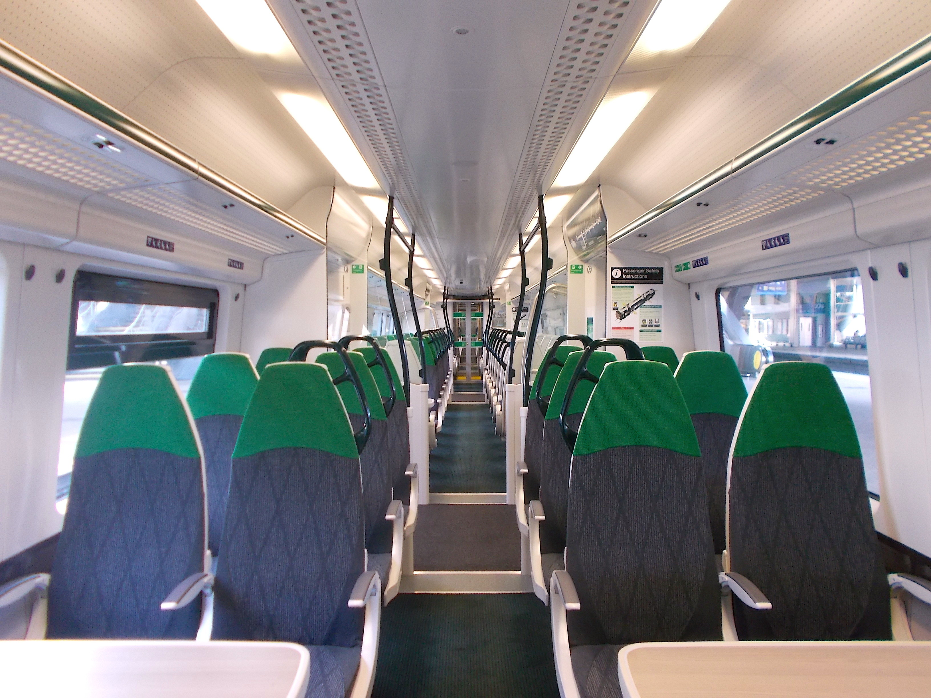 The interior of a brand new GWR Bombardier Class 387 Electrostar